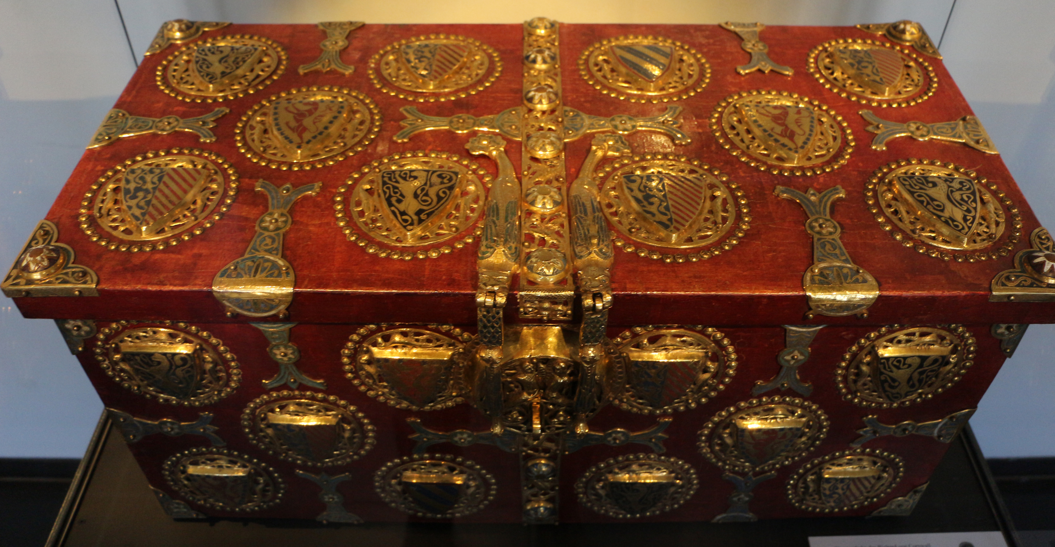 Domschatz, Aachen